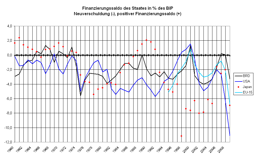 Net lending (+) or net borrowing (-) of general government, USA, Japan, FRG